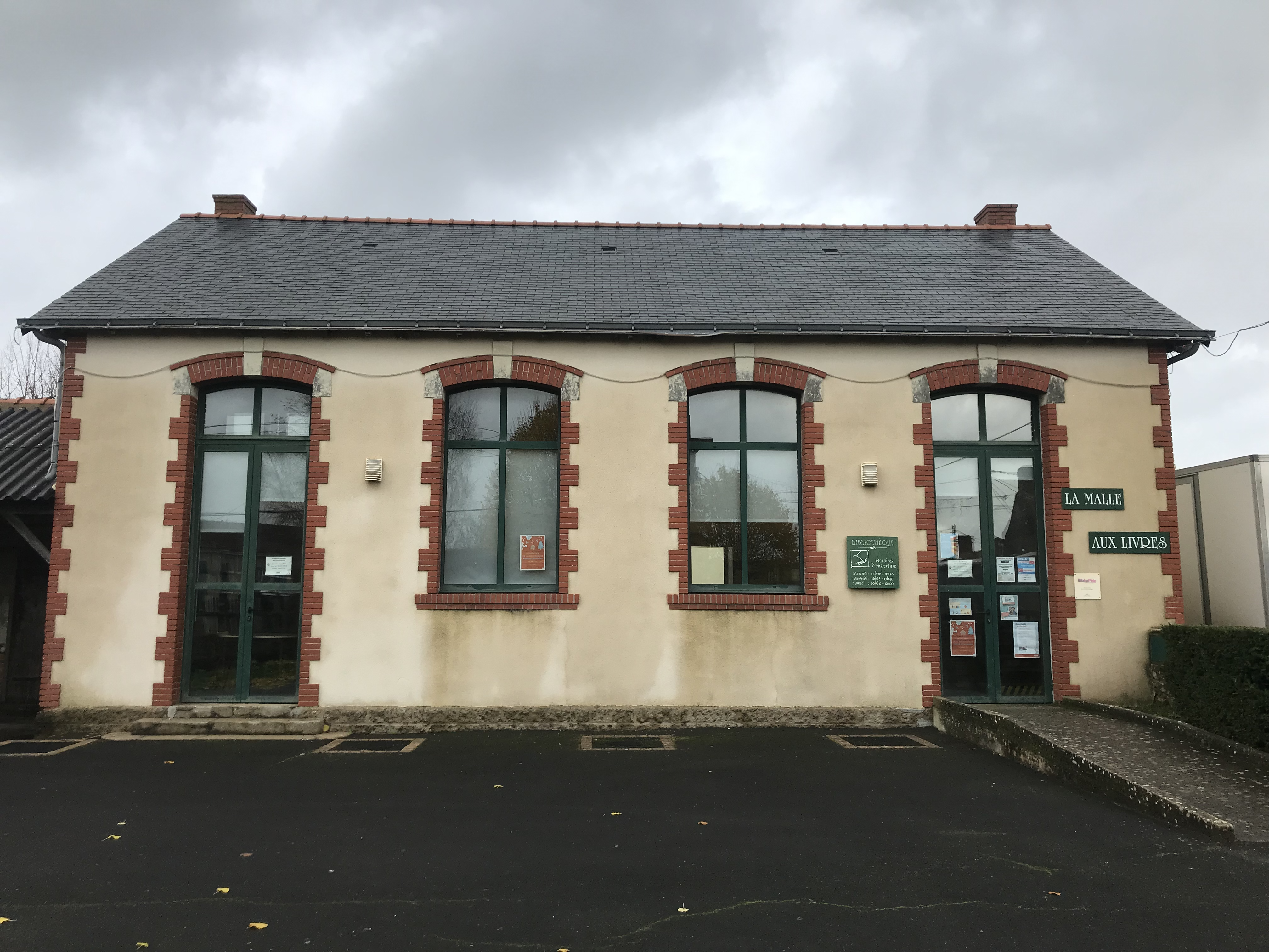 Bibliothèque de Bouzillé (Maine-et-Loire, France).